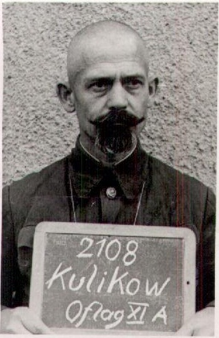 Soviet Major General Konstantin Yefimovich Kulikov (1896—1944).